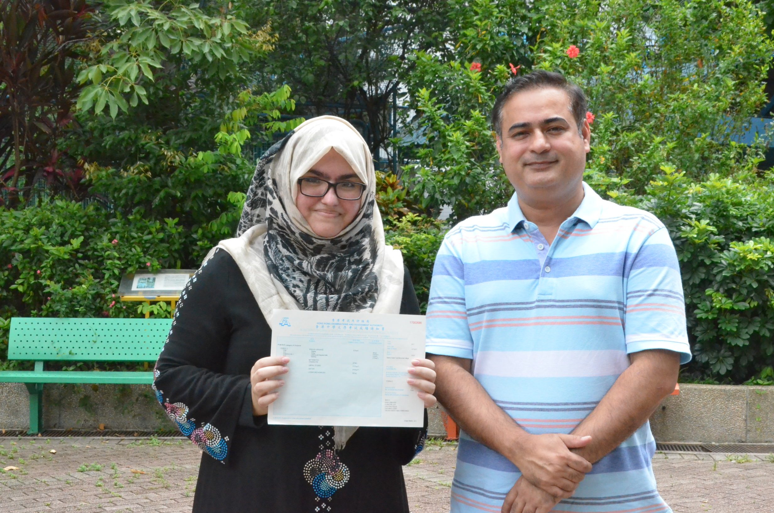 5 star achiever